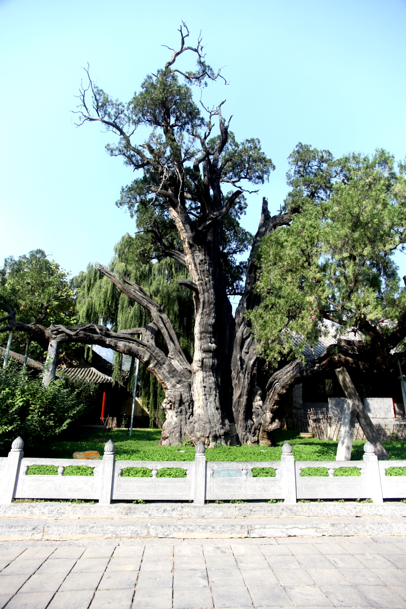 Old General cypress Platycladus orientalis in Song Yang Academy